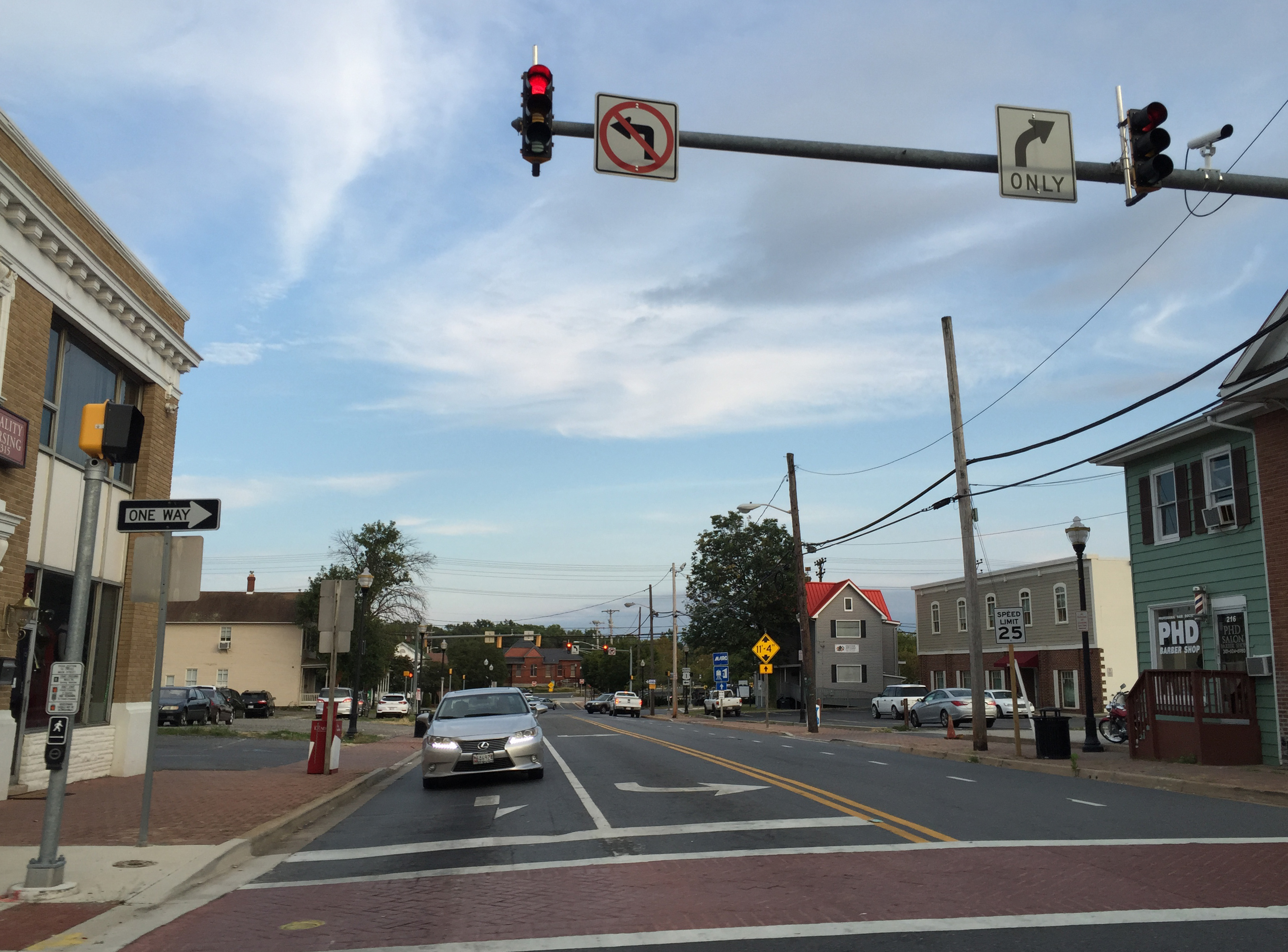 View southeast at the northwest end of Maryland State Route 979 (Main Street) at U.S. Route 1 southbound (Washington Boulevard) in Laurel, Prince Georges County, Maryland